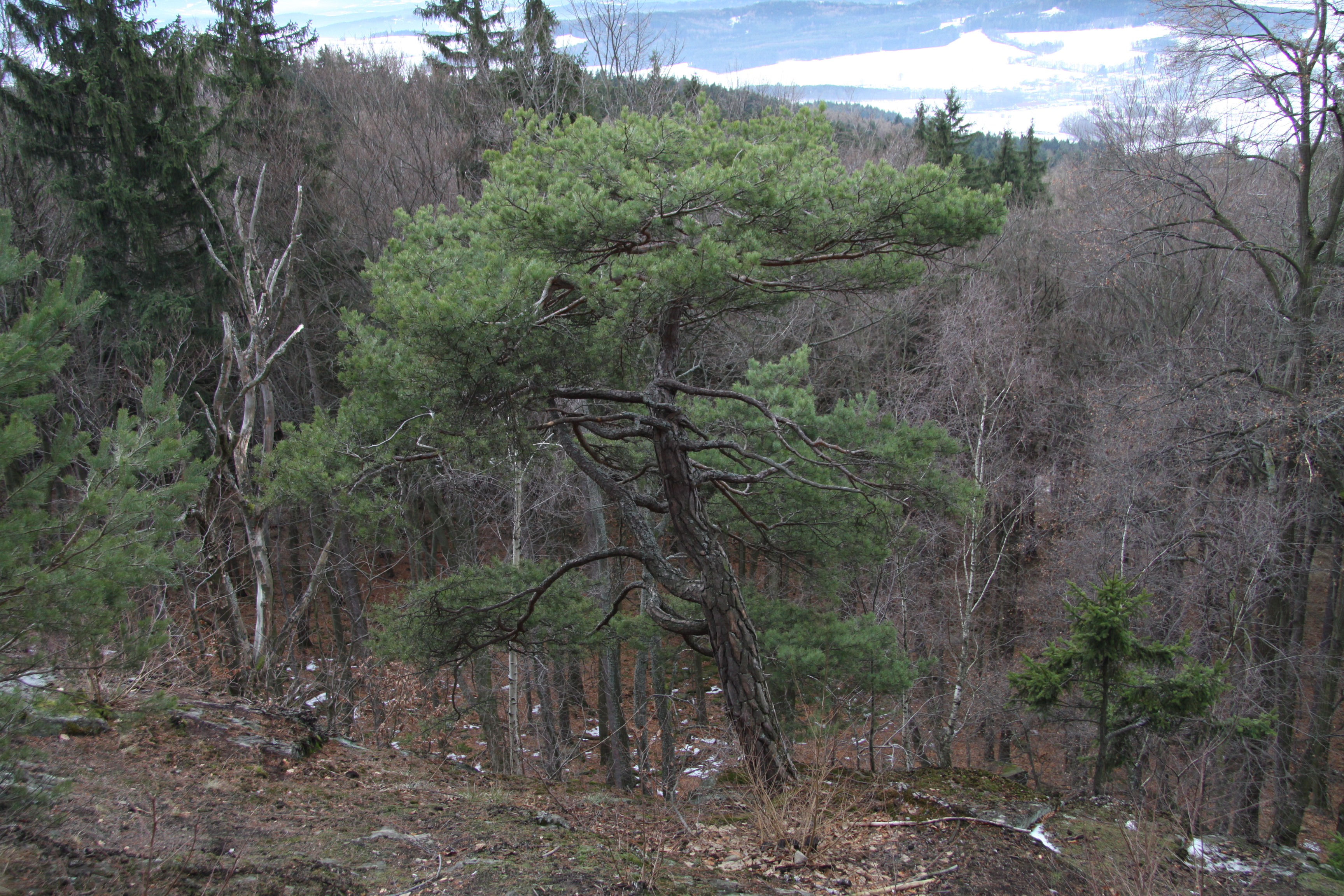 Natural reservation Skočický hrad near Skočice, Strakonice District, Czech Republic - Google Maps - Google Earth